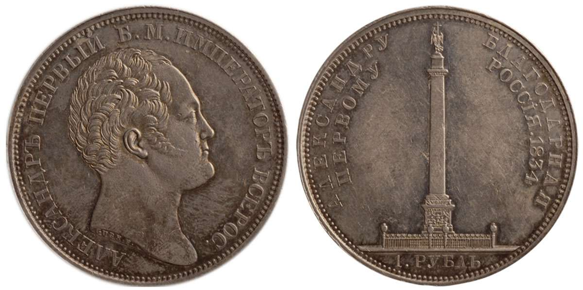 Rouble GUBE F. of 1834. Minted on occation of unveiling of Alexandrine Column in Petersburg.